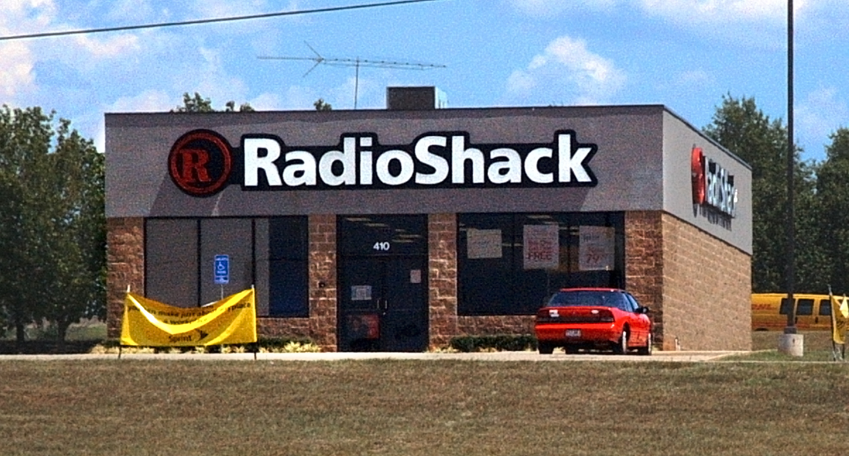 A free-standing RadioShack electronics store in Texarkana. Incidentally, a DHL delivery van is visible on the road behind the store.